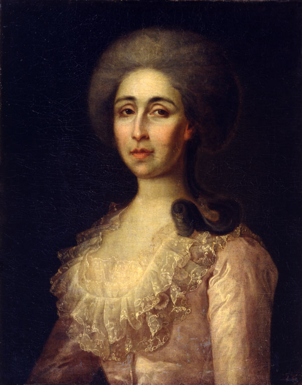 Portrait of Anna Radishcheva (1752-1783)